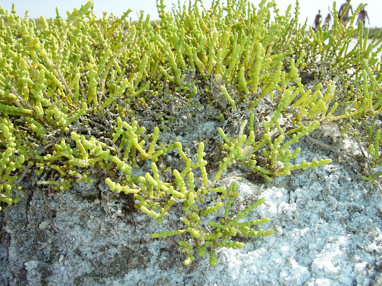 Salicornia europaea at saltlake Baskunchak (Russia).